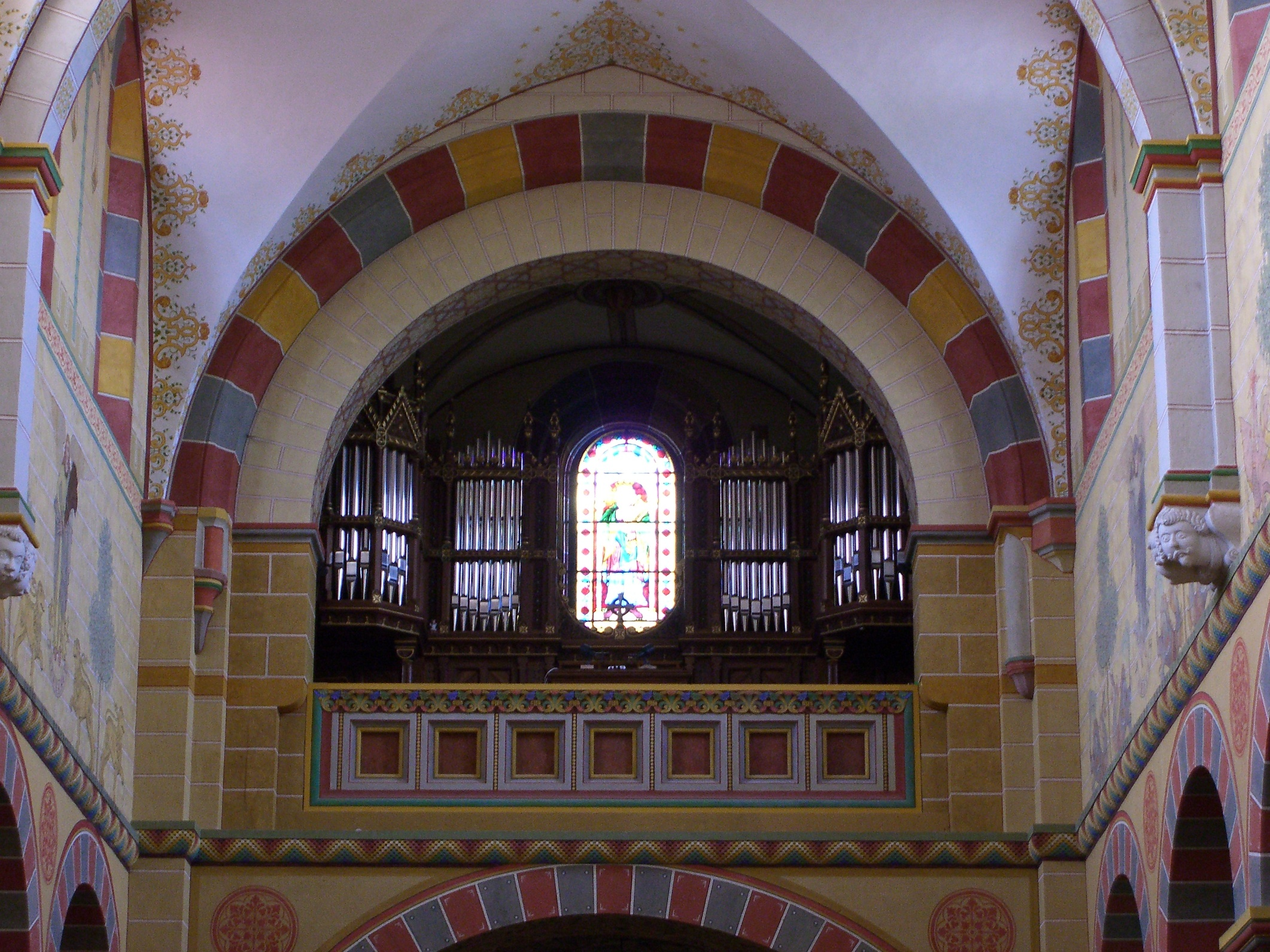 Organ in the the monastery church (Kaiserdom) in Königslutter.